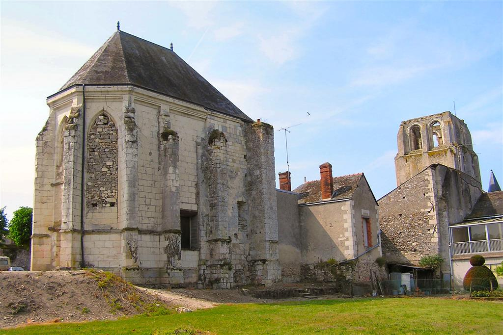 abbaye de Cormery (Touraine)